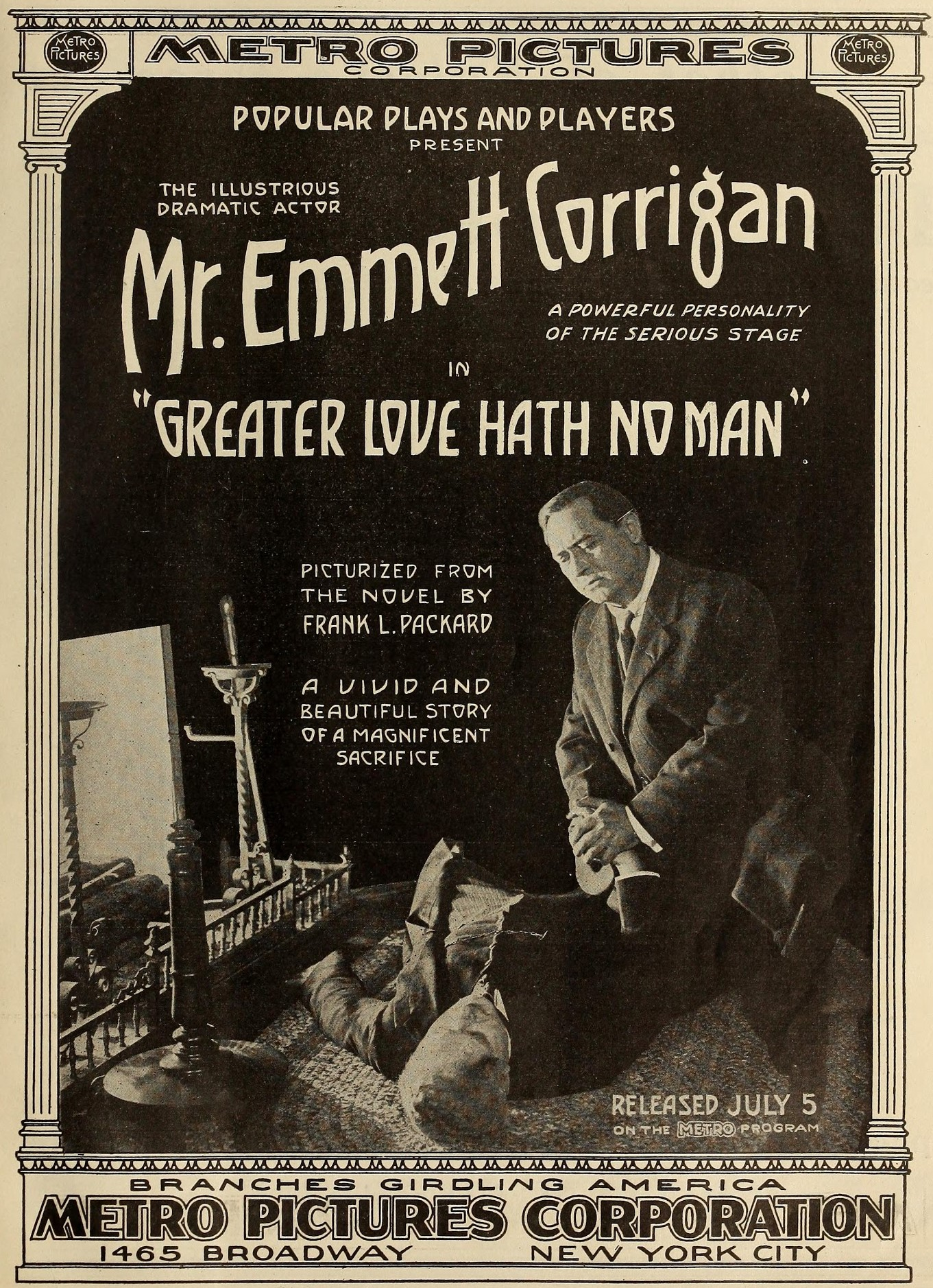 Emmett Corrigan in Greater Love Hath No Man (1915 American film) - publicity still (cropped) in Motion Picture News, July 10, 1915, p. 25